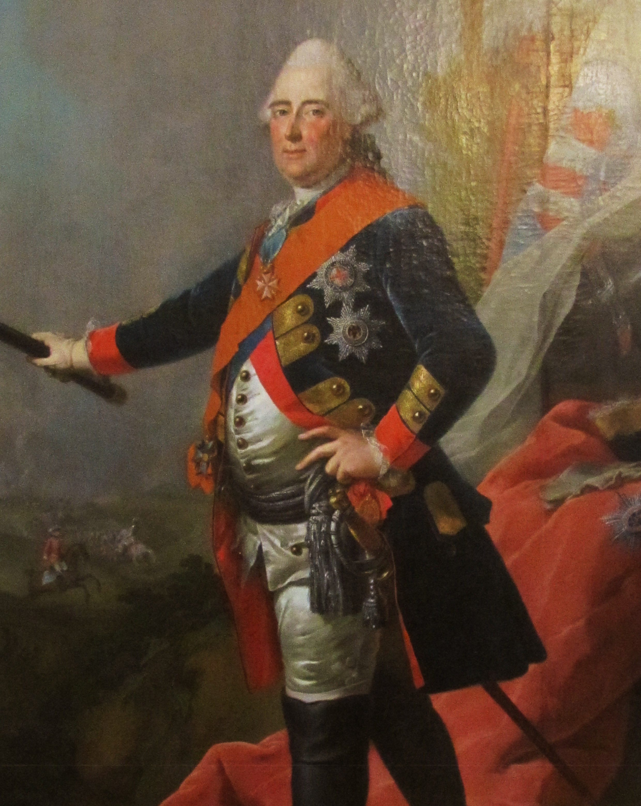 Portrait of Frederick II, Landgrave of Hesse-Cassel (1720-1785)